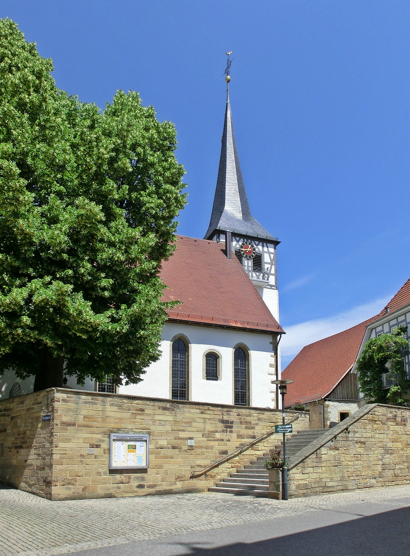 The Protestant Mauritius church in Kirchheim am Neckar, Baden-Württemberg.